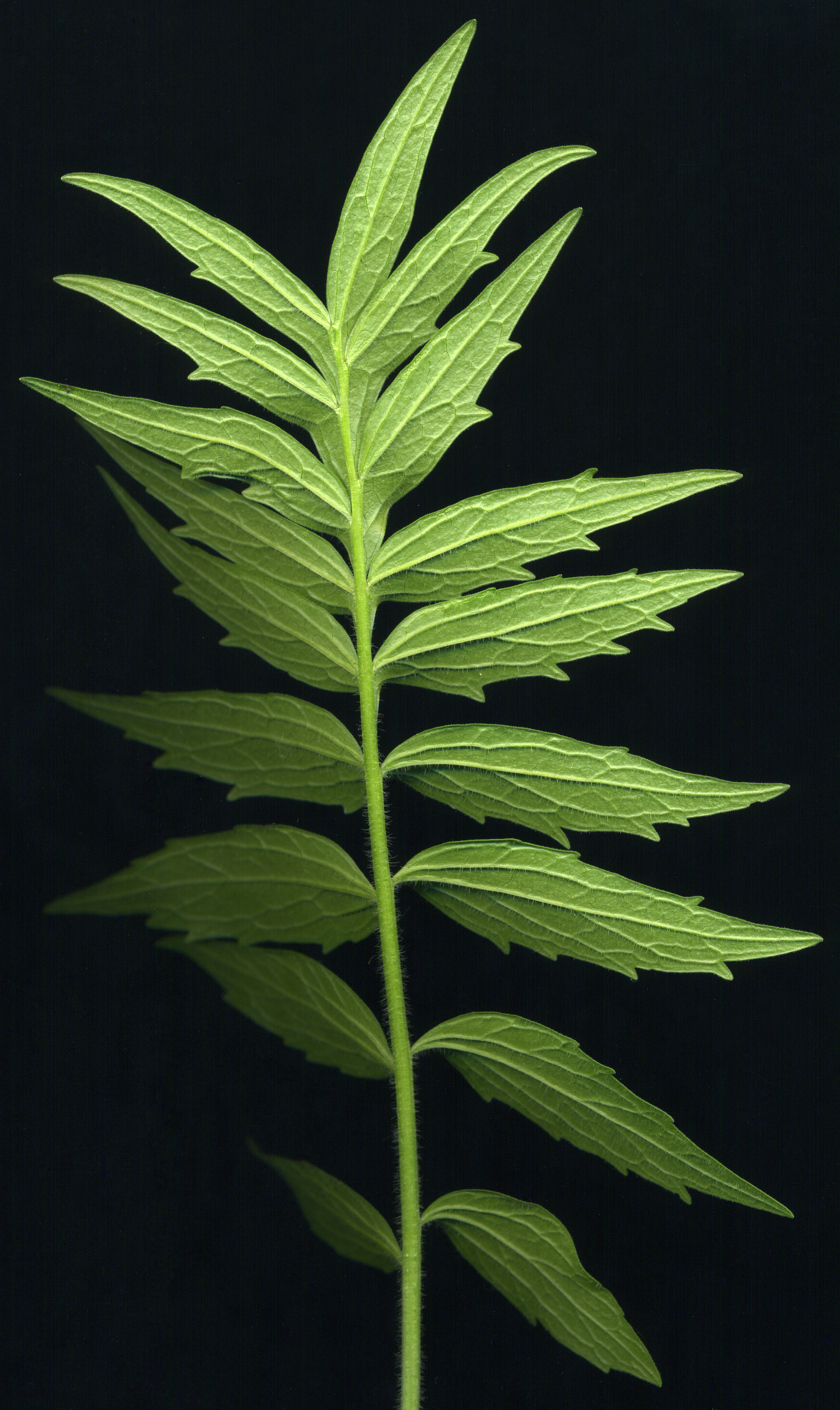 Valeriana officinalis leaf (underside)